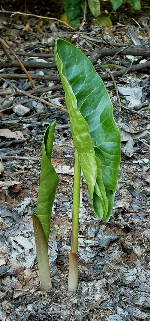 Two young Arum palaestinum plants in Karkur, Israel